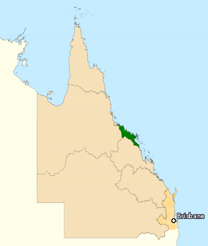 This image incorporates data that is: © Commonwealth of Australia (Australian Electoral Commission) 2009 Division of Dawson 2010